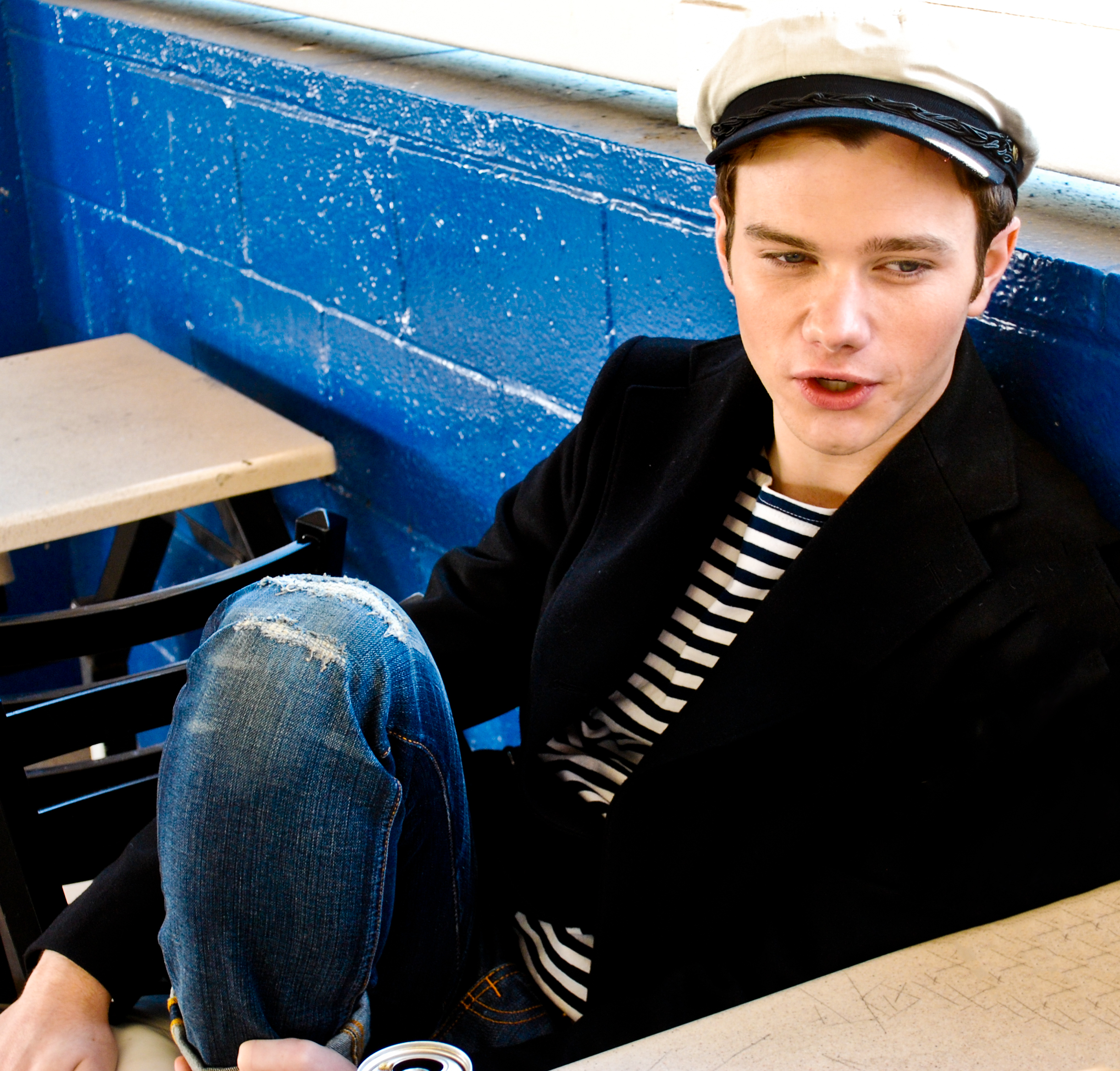 Chris Colfer at Venice High School (Los Angeles, California). Glee was shooting a Grease remake at Venice High, where the original 1978 musical starring John Travolta was filmed.